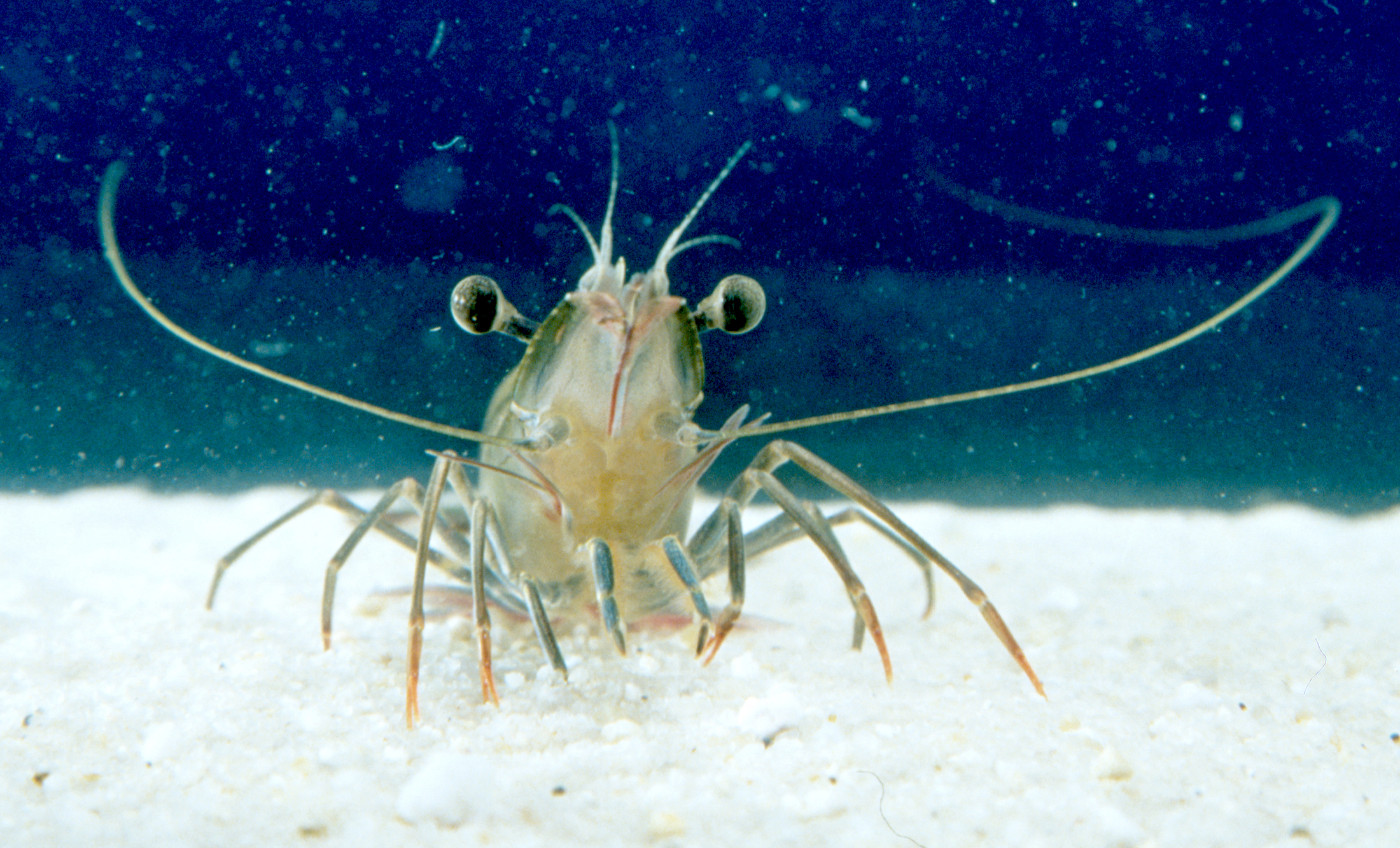 The giant tiger prawn is the dominant prawn species farmed in Asia and Australia. Scientists at CSIRO Marine Research are working to improve the average productive output of the giant tiger prawn, improve the capacity for the farms to stock ponds with progeny from domesticated broodstock, and develop and introduce selective breeding for commercially useful traits. Picture credit: CSIRO Marine Research.